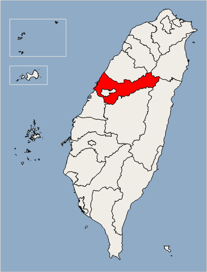 Location of Taichung County in Taiwan